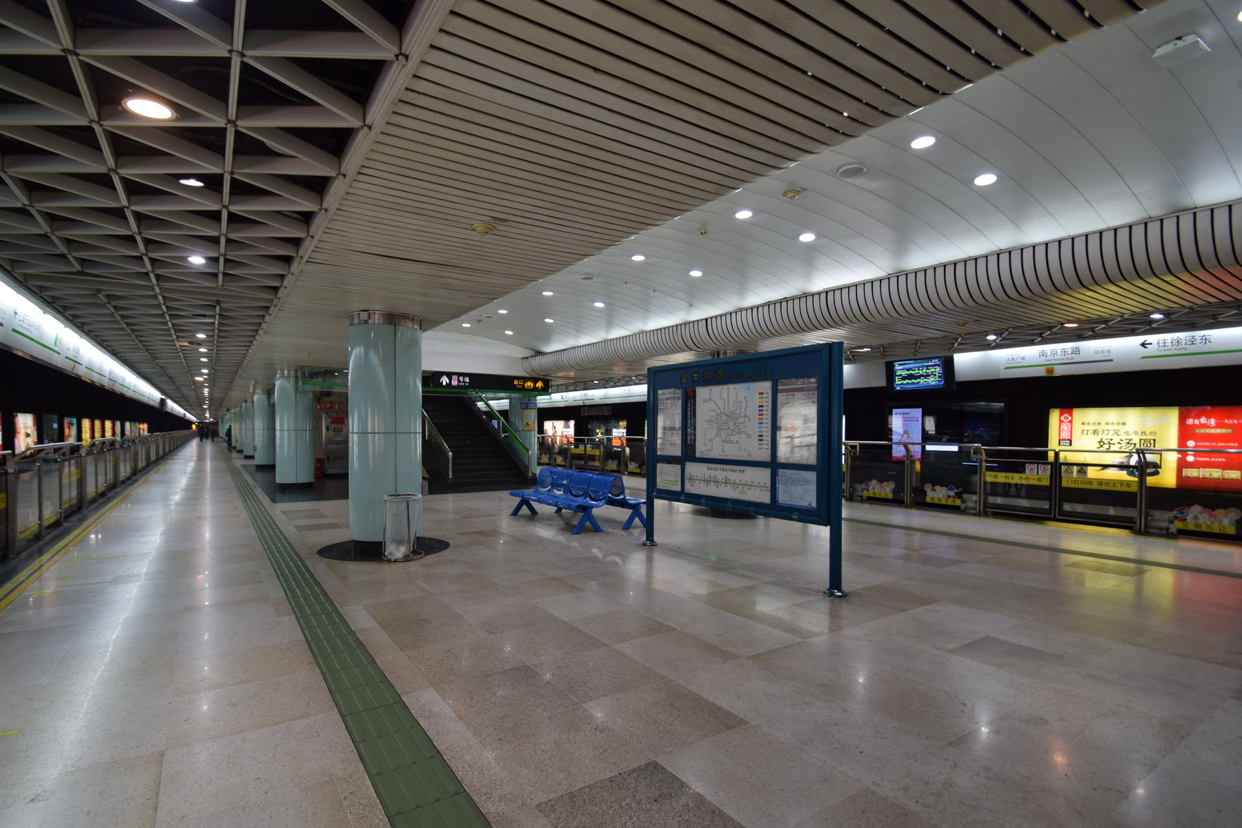 Line 2 Platform of East Nanjing Road Station, Shanghai Metro